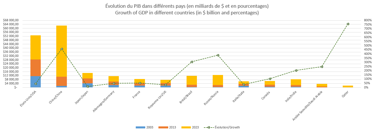 GDP of the major powers of the world from 2003 to 2023